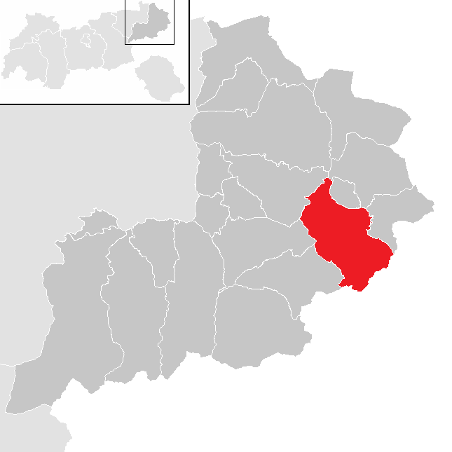 District Kitzbühel